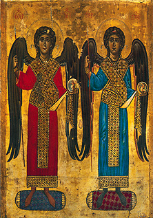 Orthodox icon